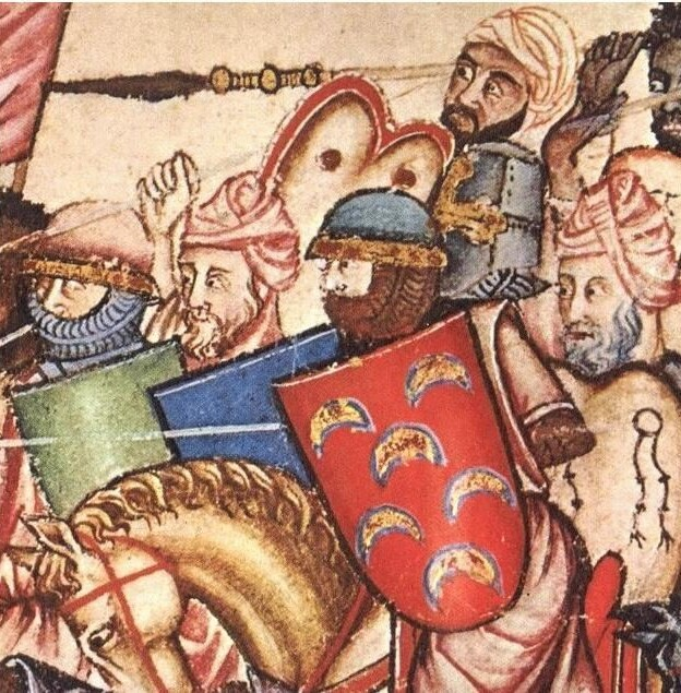 moorish army of almanzor during the Battle of San Esteban de Gormaz ,from cantigas de alfonso x el sabio.